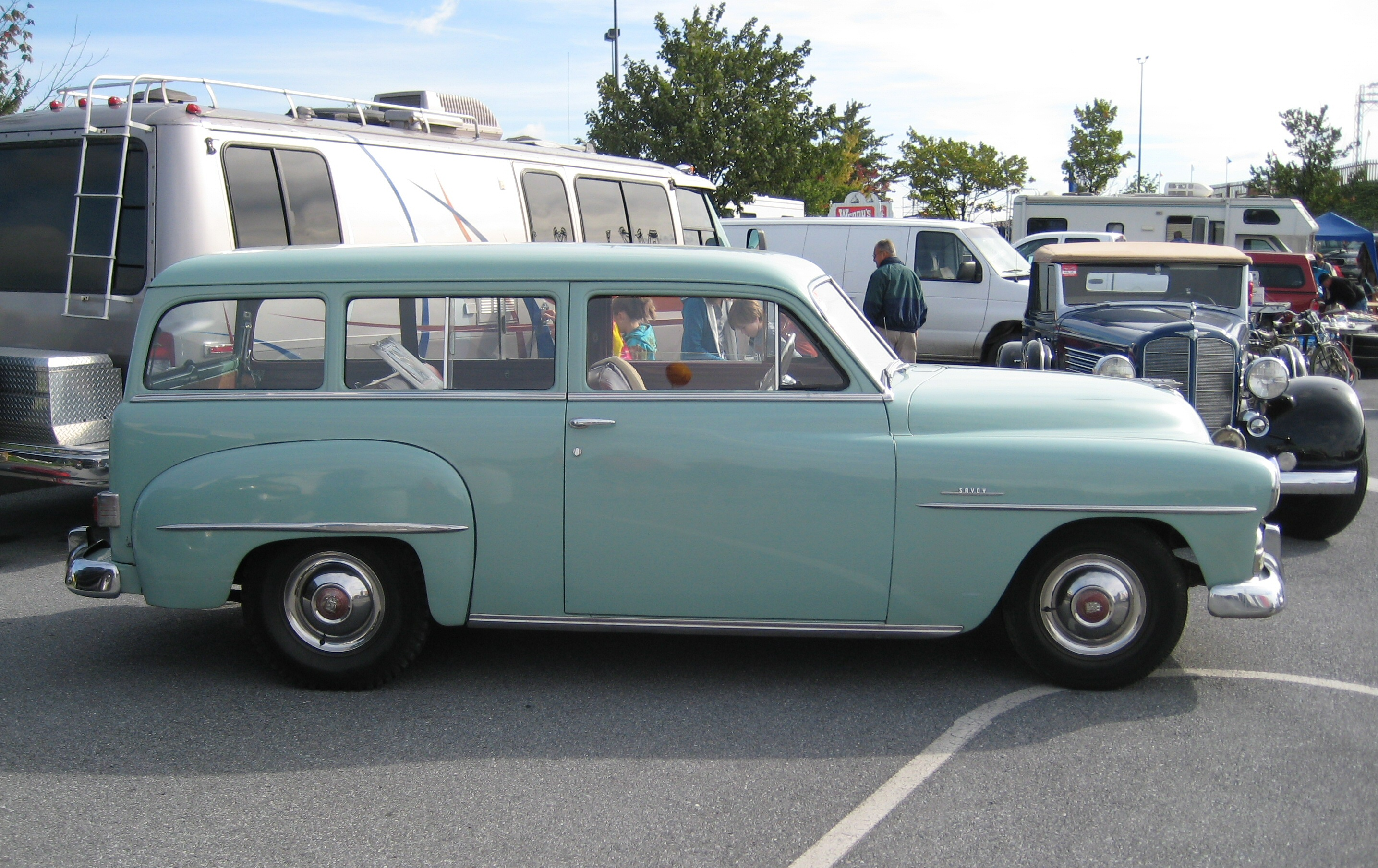 AACA Fall Meet, October 2009, Hershey, Pennsylvania